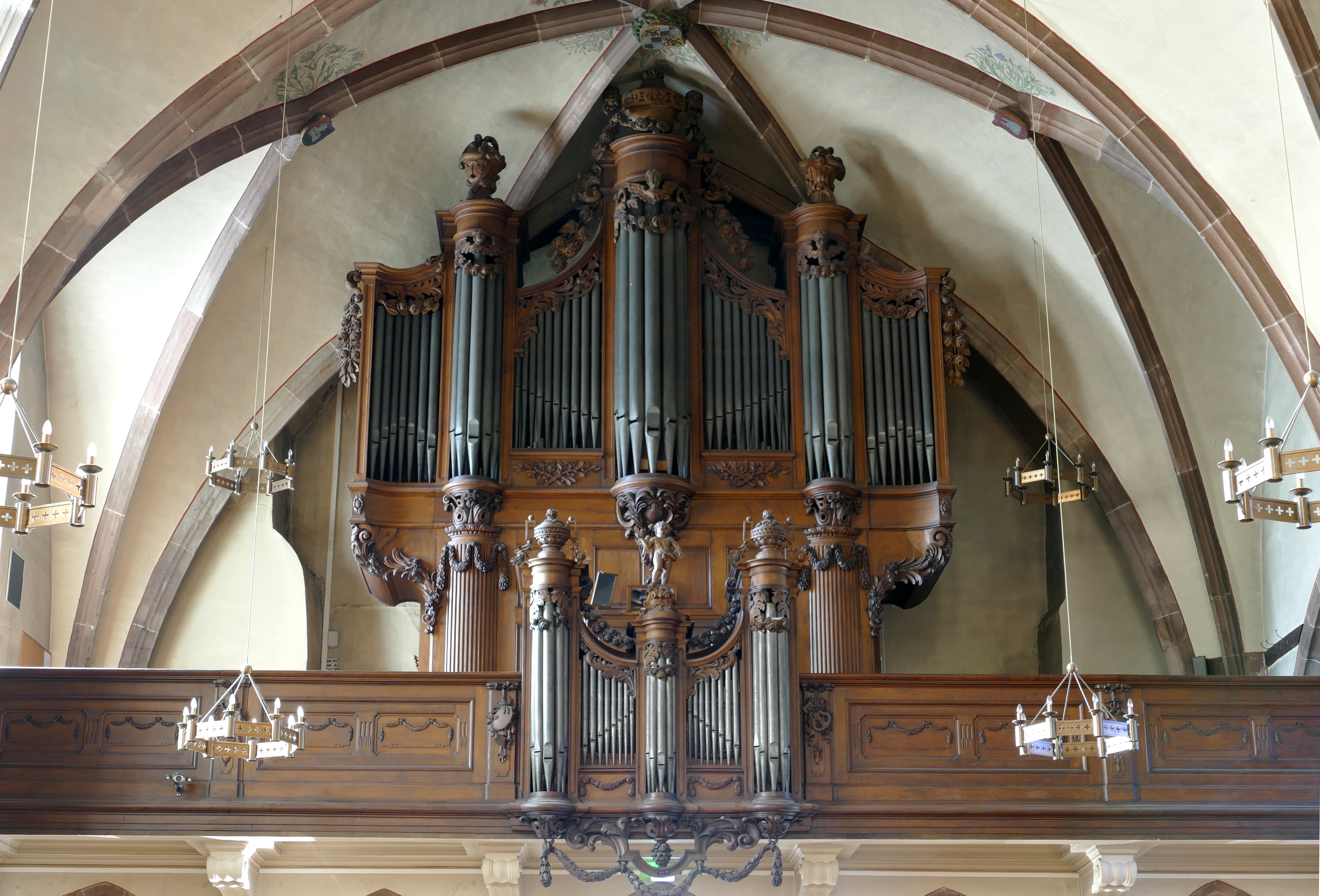 Alsace, Bas-Rhin, Saverne, Église Notre-Dame-de-la-Nativité (PA00084954, IA00055464). Orgue de Sébastien Kraemer-Kern (1784): This object is classé Monument Historique in the base Palissy, database of the French furniture patrimony of the French ministry of culture, under the references PM67001086, IM67004339 and buffet+garde-corps PM67000287 buffet+garde-corps.